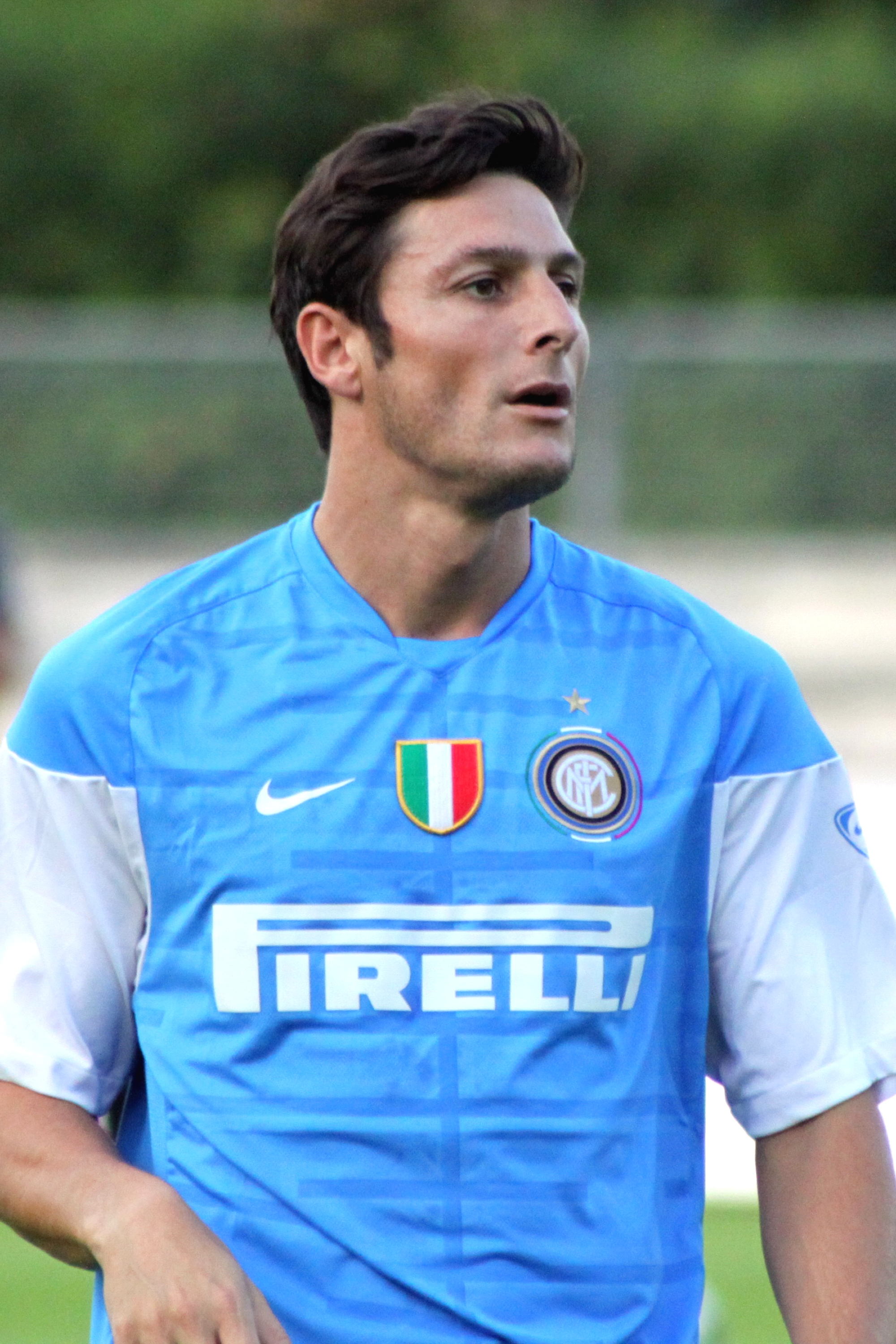 Javier Zanetti - F.C. Internazionale Milano